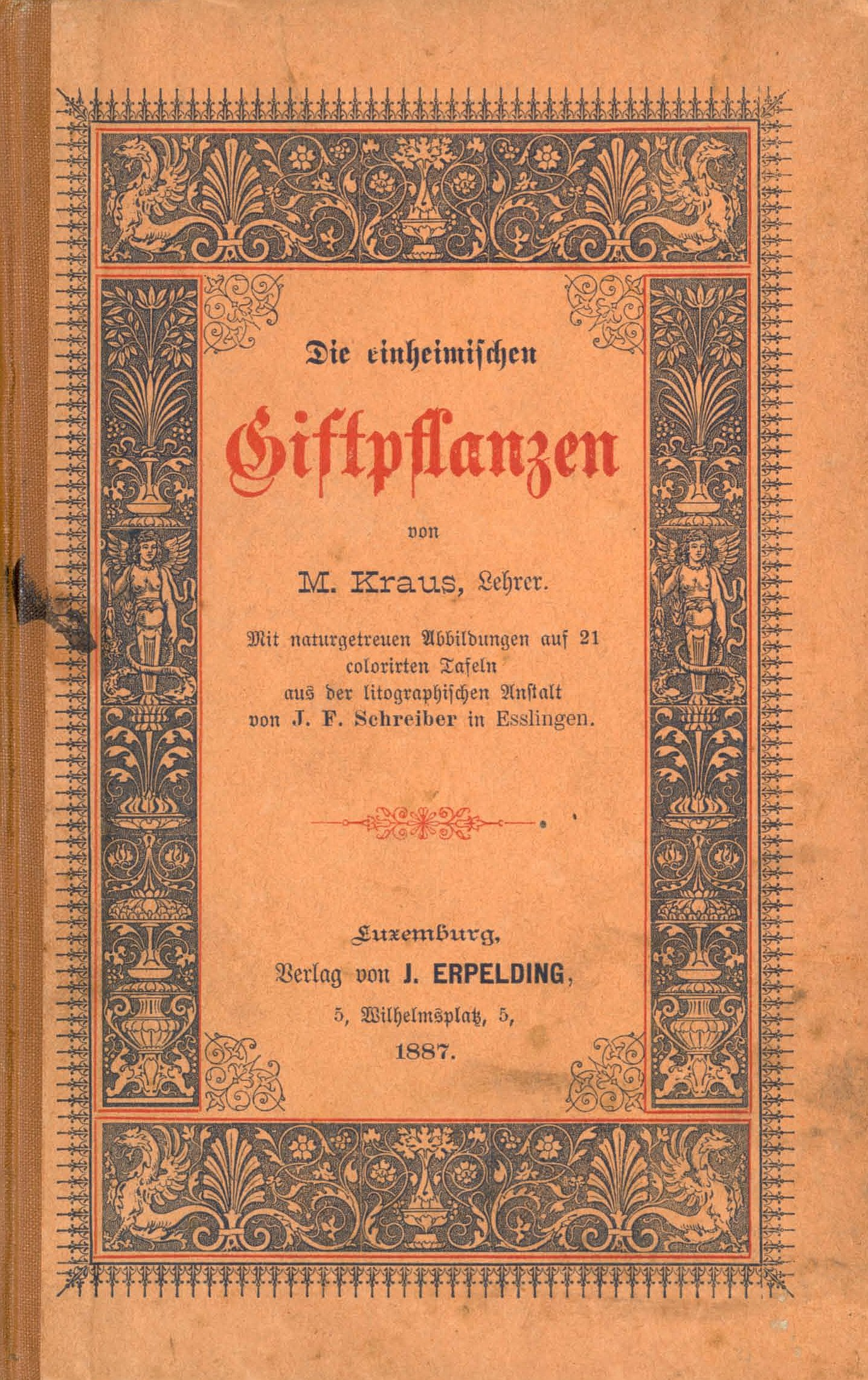 Front page of "Die einheimischen Giftpflanzen (1887)" by Mathias Kraus, Luxembourg.